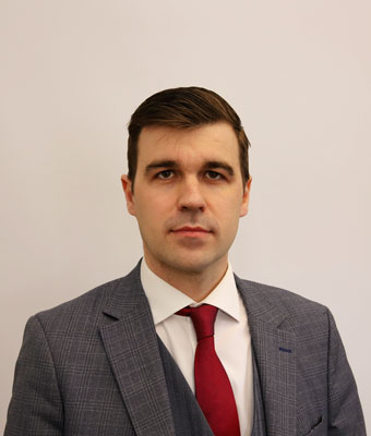 Irish Politician Duncan Smith of the Labour Party, taken in 2020.